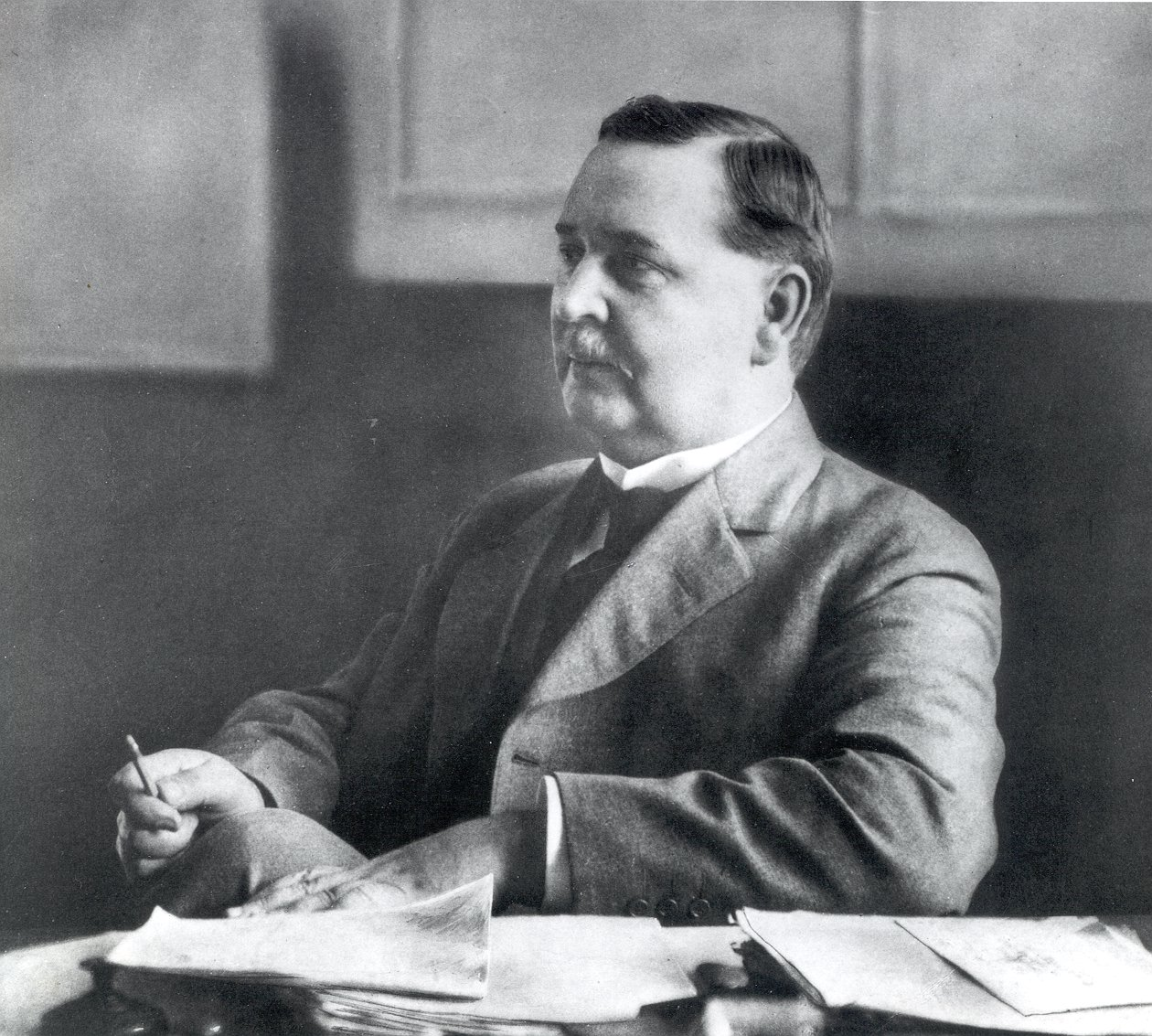 Benjamin Garver Lamme, a.k.a. B.G. Lamme (1864–1924). This photo appeared in Lamme's autobiography, Benjamin Garver Lamme: Electrical Engineer, published 1926 by G.P. Putnam's Sons, New York. The book does not appear in 1953 or 1954 LoC copyright renewal registrations, so it is apparently in the public domain. The entire text, including this photo, is available on , where it listed as "out of copyright".